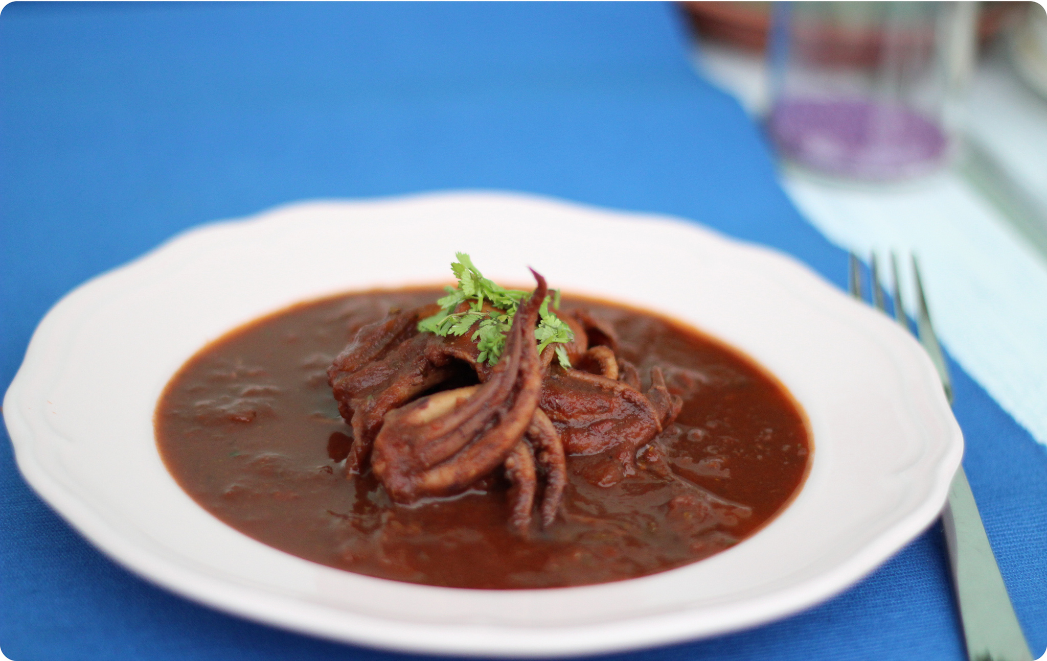 Squids in guazzetto - Italian cuisine.